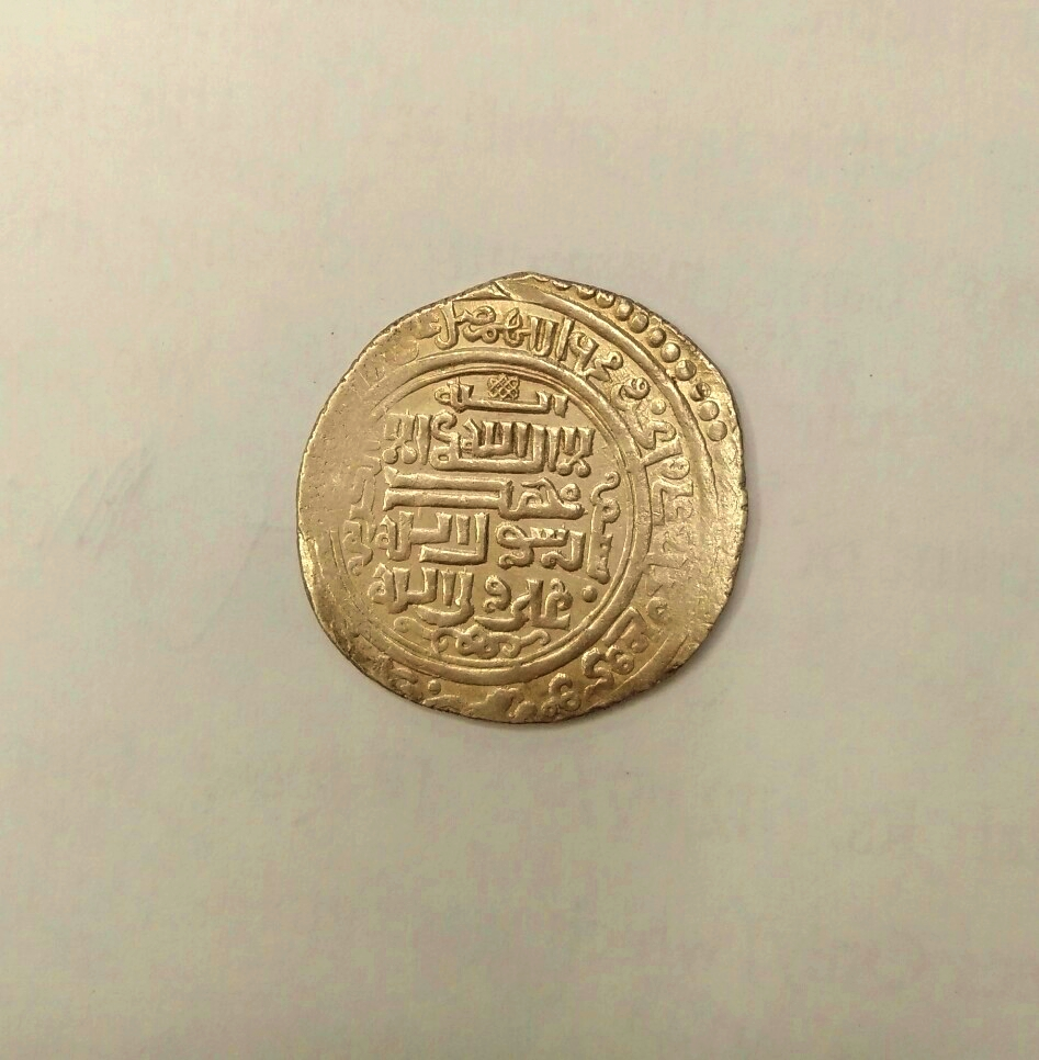 Silver Coin of Muhammad Khodabandeh Öljaitü (Obverse), ruler of Ilkhanate, reigned 1304- 1316